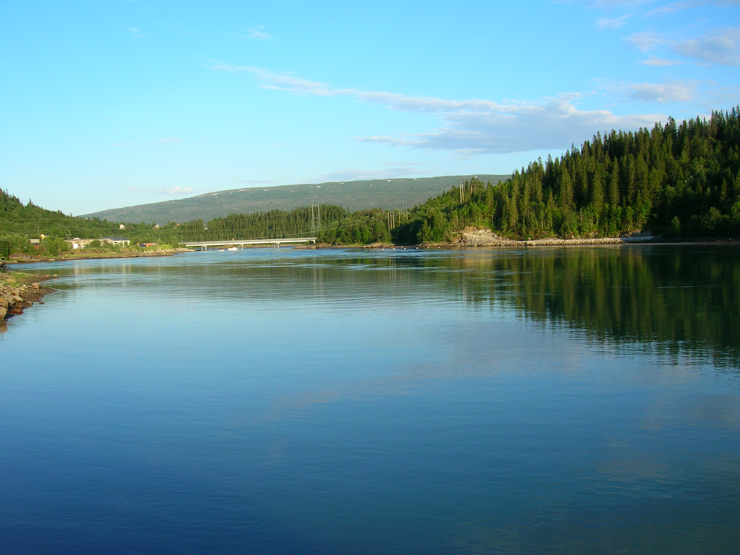 The beginning of Ranfjord seen from Ytteren, south of the coastal highway passing Ytteren in Rana, Nordland, Norway. The bridge connecting Mo i Rana and Ytteren seen on the picture, is at the outlet of Ranelva at Fossetangen. Photo July 5, 2007 with a Nikon Coolpix 5600 5,1 Megapixel camera.